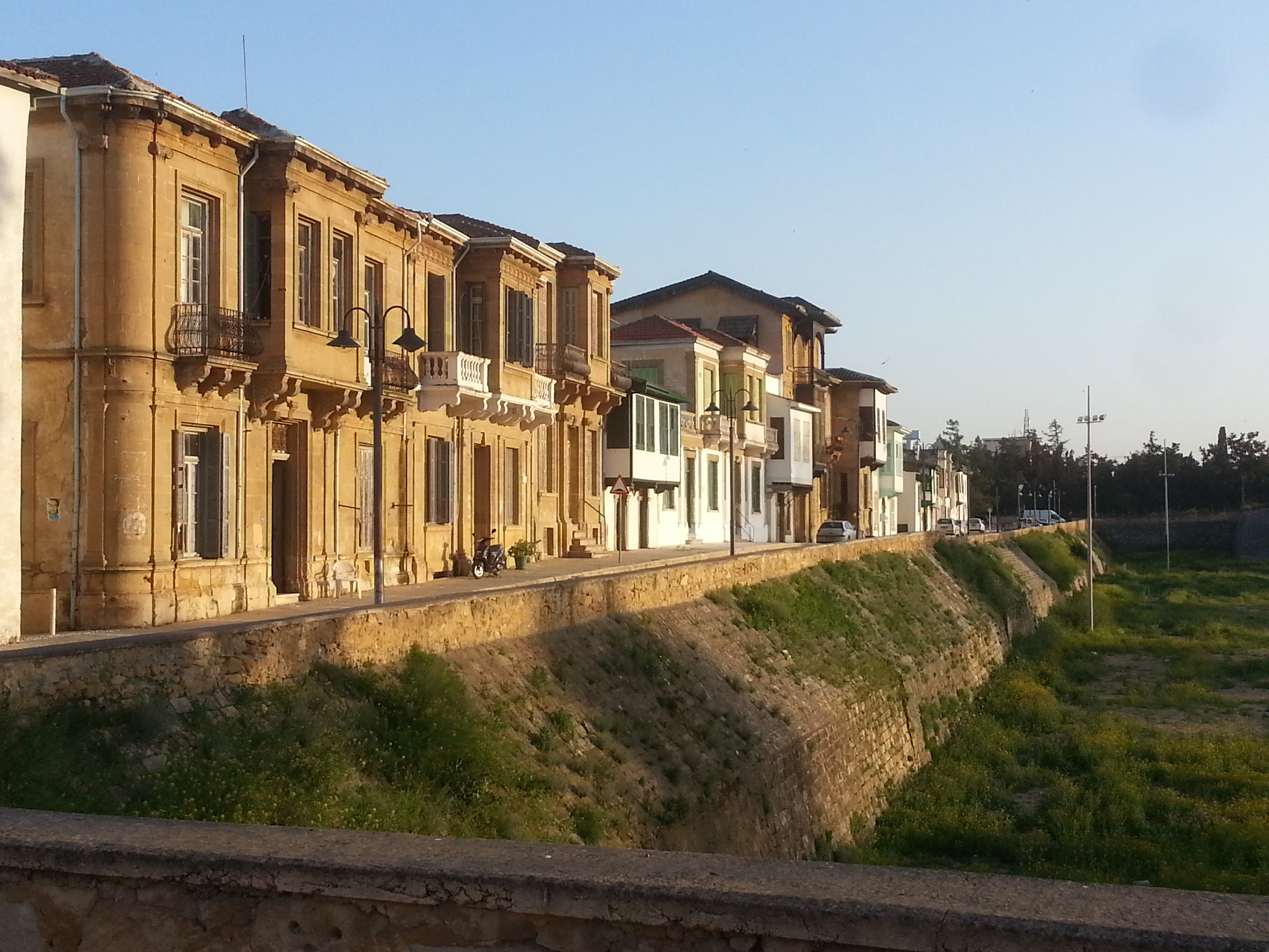 Zahra Street (Zahra Sokağı) in Arab Ahmet, northern Nicosia, Northern Cyprus.